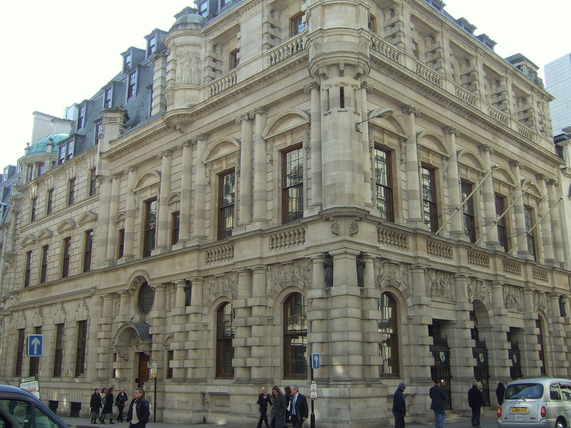 Colcutt's 1901 Lloyd's register of Shipping building